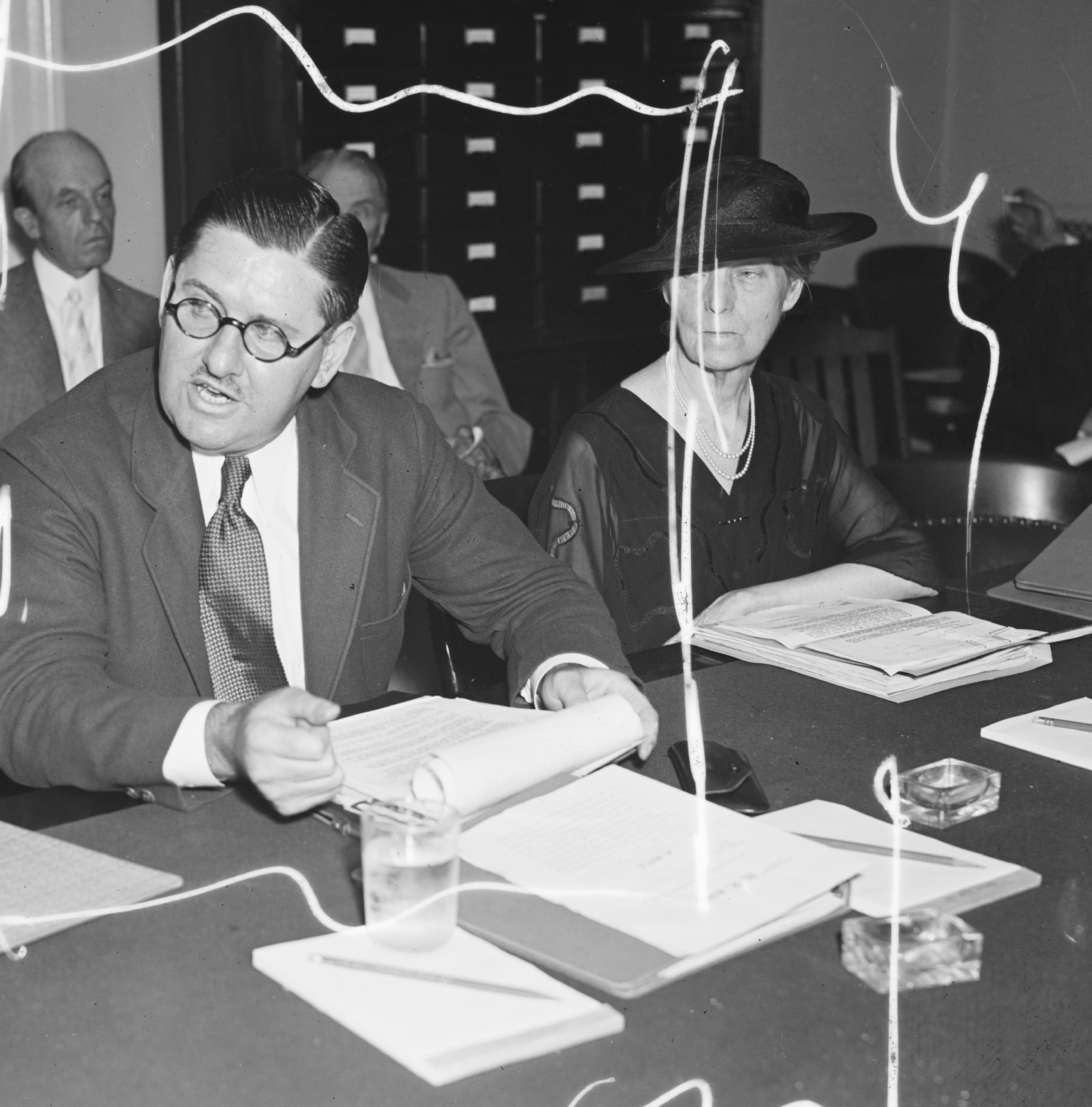 Mary Margaret O'Reilly, Assistant Director of the United States Bureau of the Mint (right) and C.M. Hester, Assistant General Counsel of the Treasury Department, testify regarding proposals to issue half-cent and tenth-cent coins for sales tax purposes.